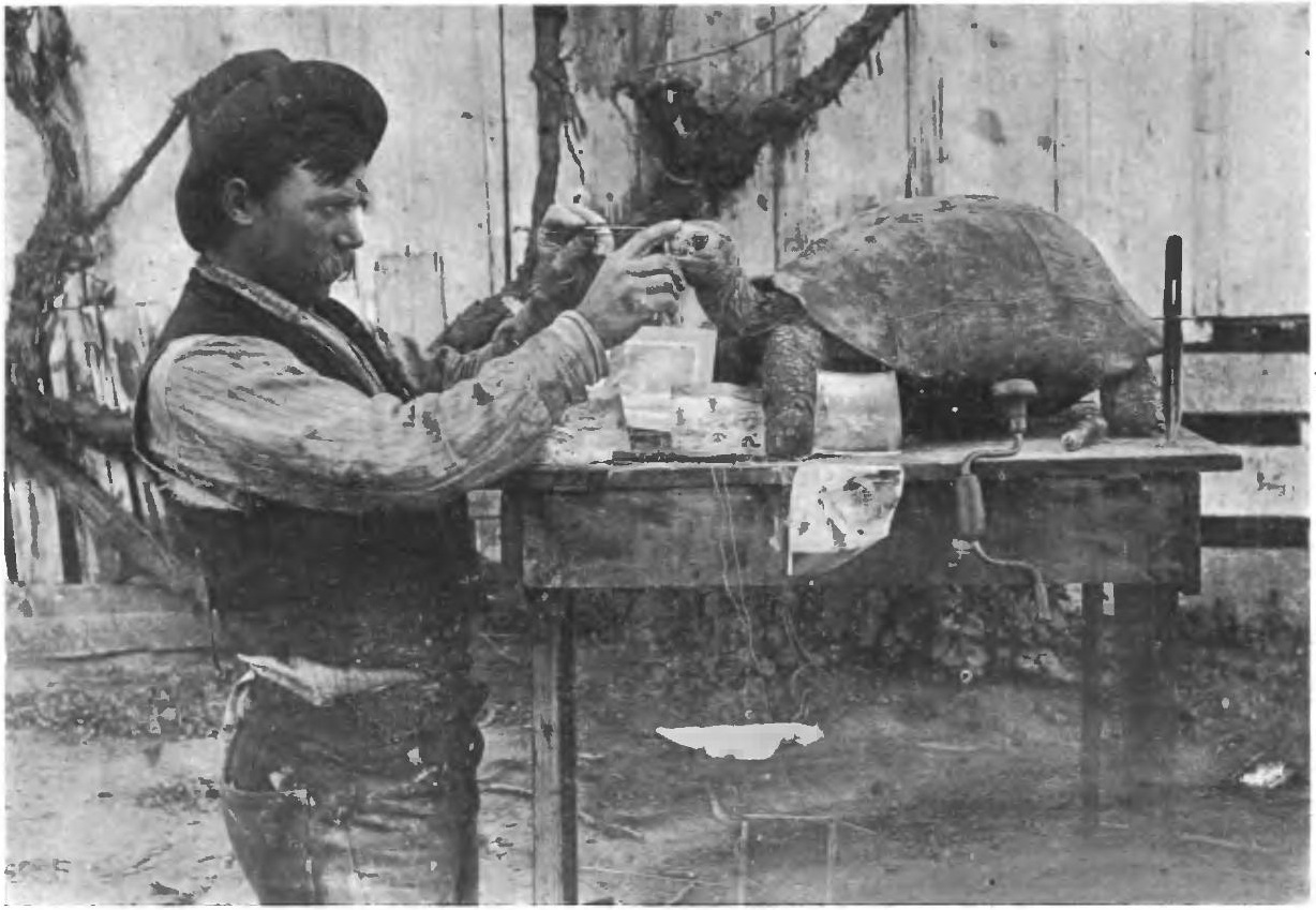 "Rollo H. Beck Mounting a Galapagos Tortoise", from The Condor